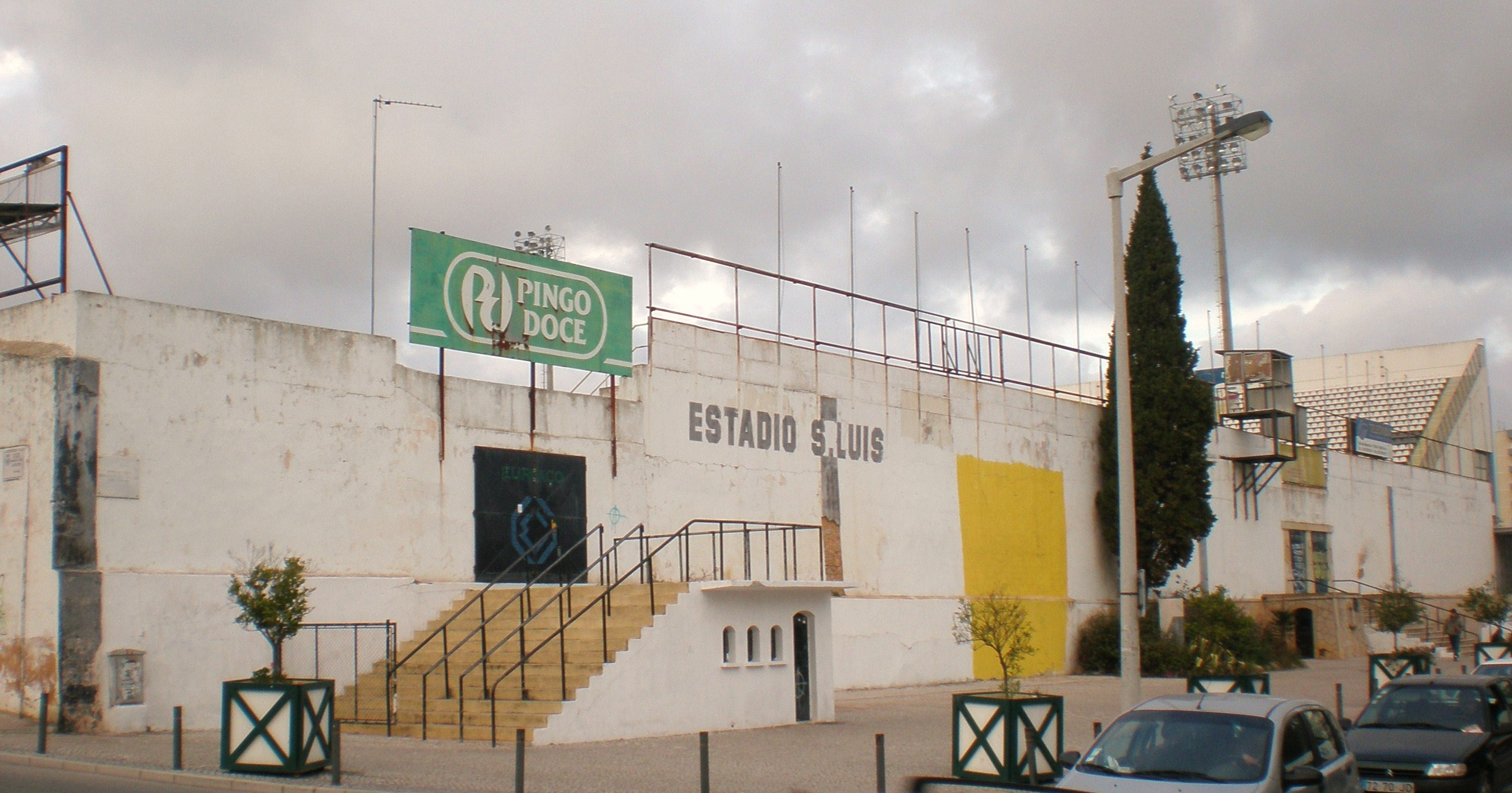 Saint Louis Stadium, Faro, Portugal